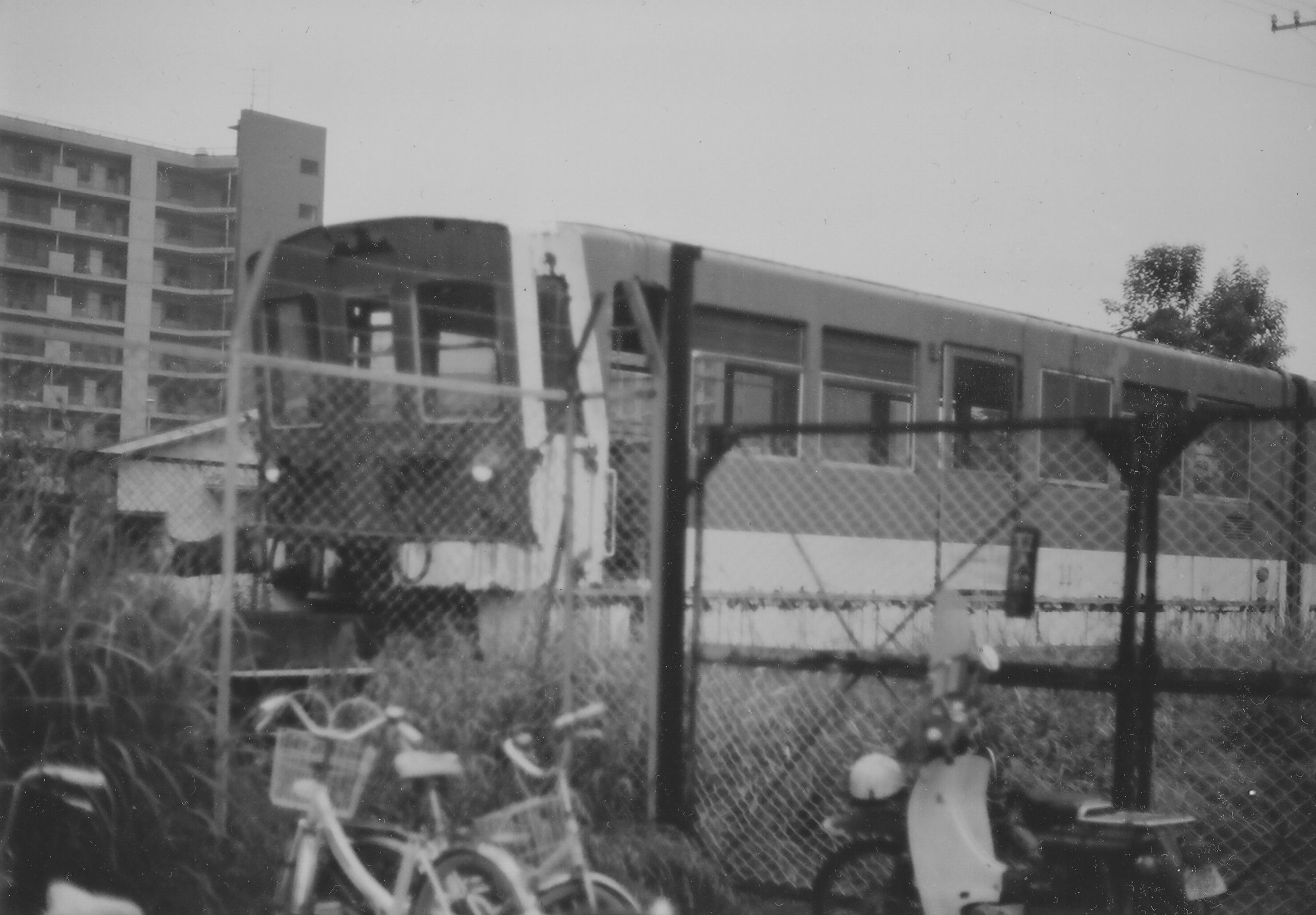 Dream Monorail